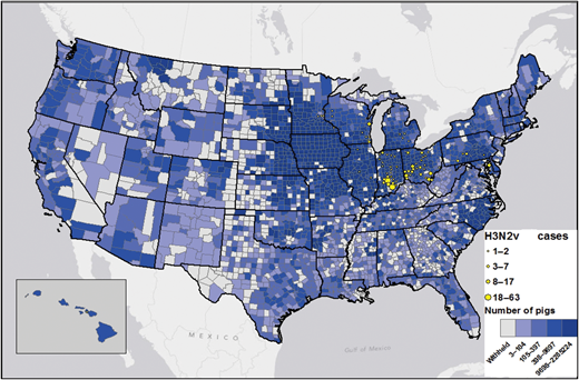 Geographic distribution of influenza A(H3N2) variant virus cases, by county, United States, July–September 2012, and number of pigs by county (2007). Number of pigs by county obtained from the 2007 Census of Agriculture, United States Department of Agriculture, National Agricultural Statistics Service.